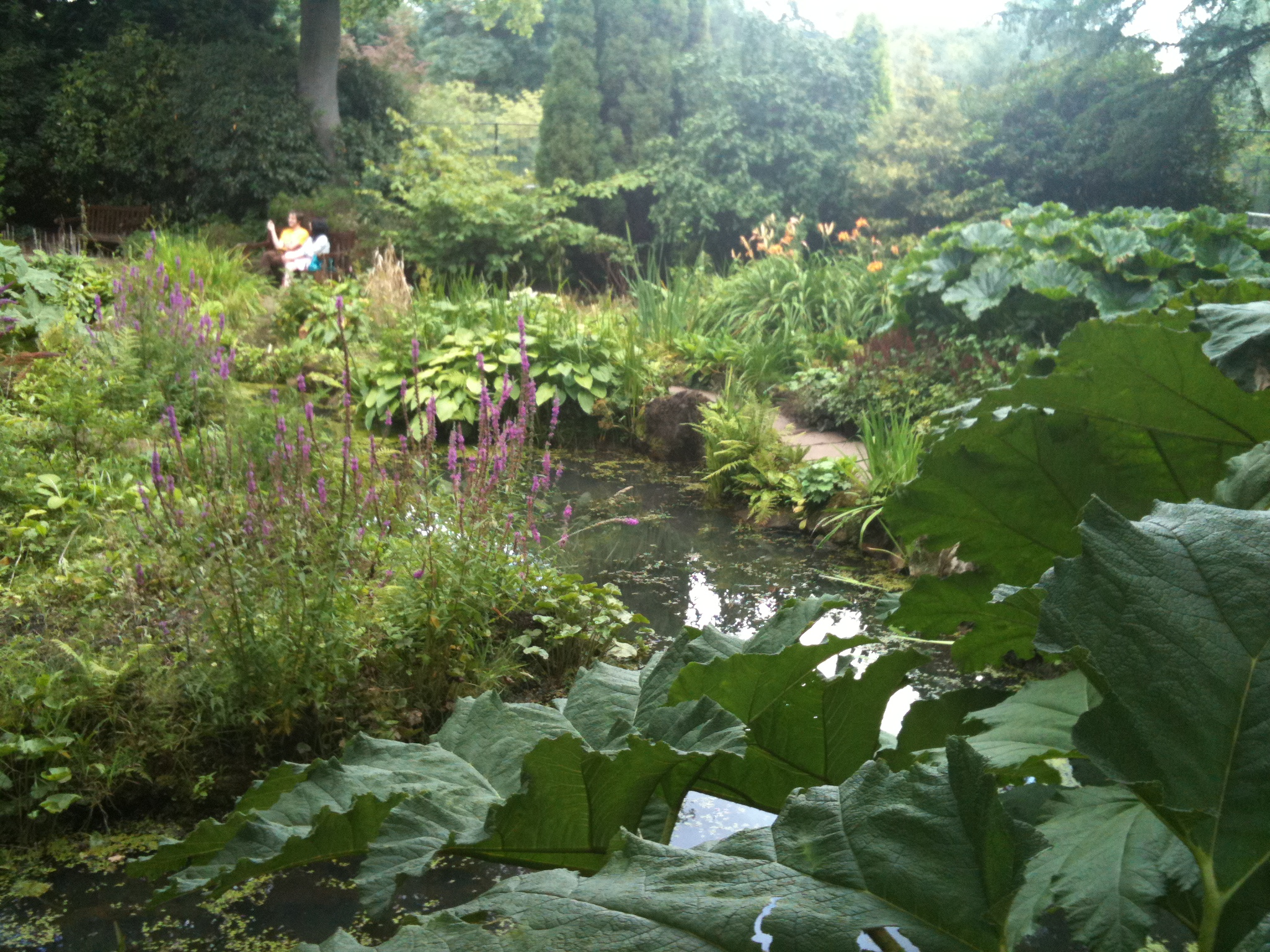 Giant gunnera around the pond in Fletcher Moss Botanical Garden, Didsbury, Manchester